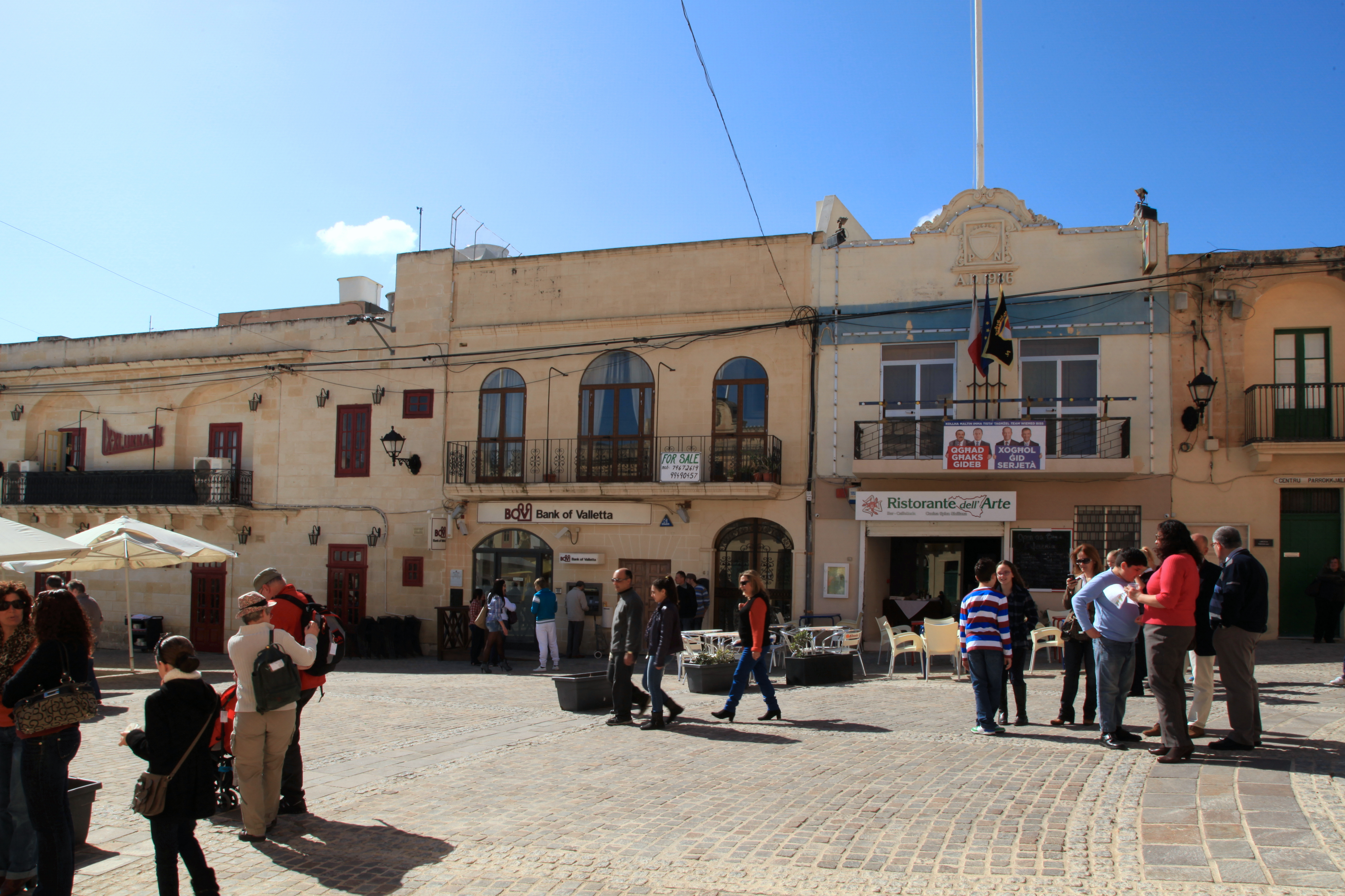 Pjazza l-Madonna ta' Pompei in Marsaxlokk, Malta